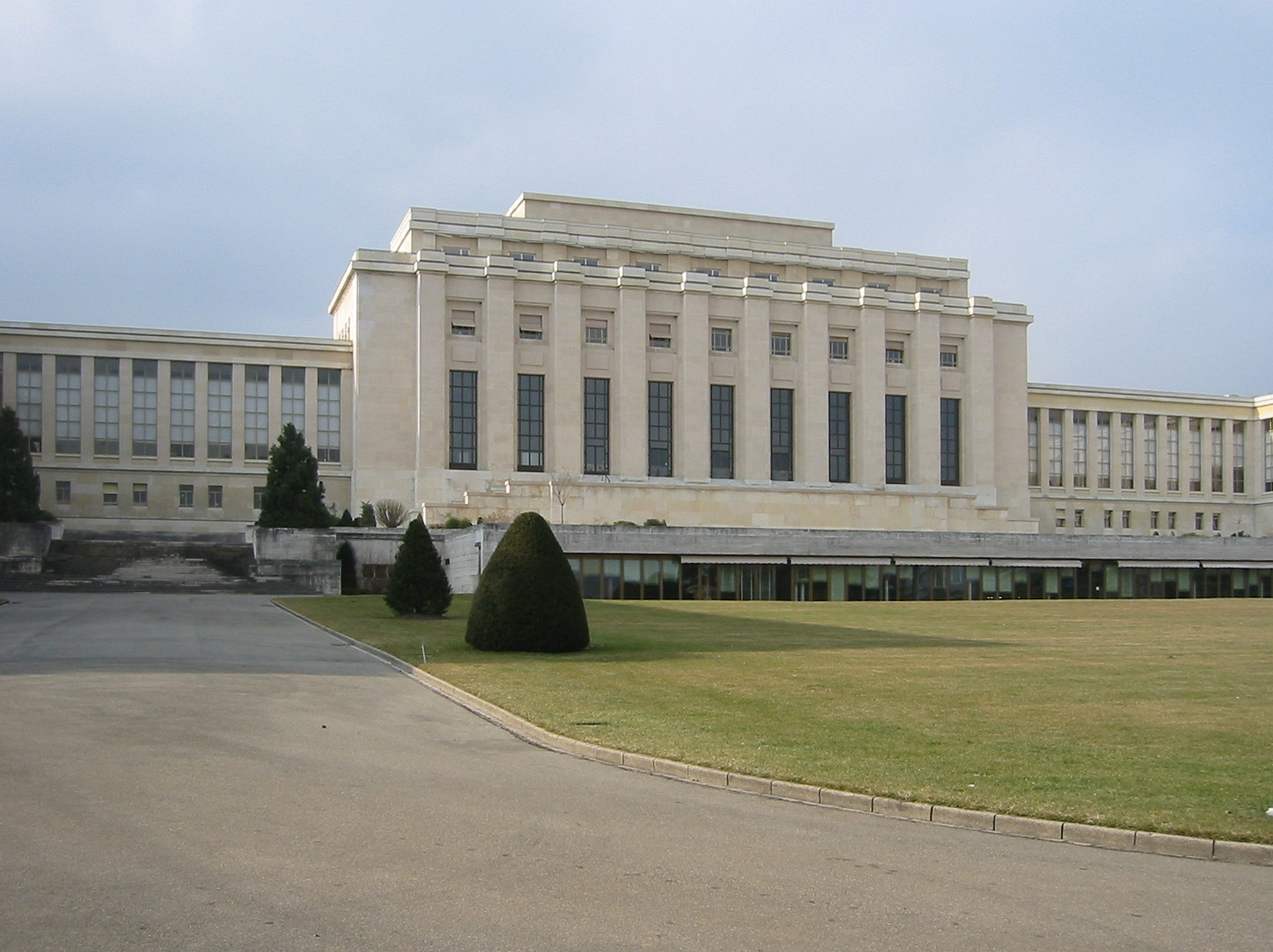 Palace of Nations in Geneva, Switzerland